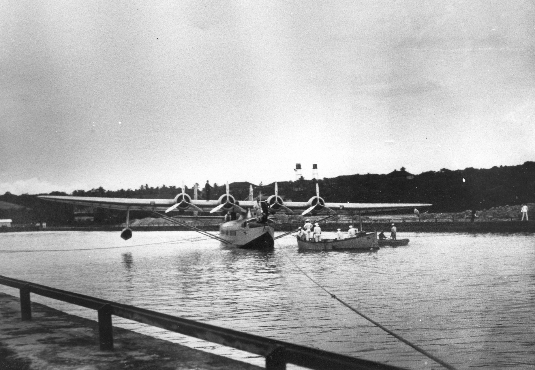 A Pan American Sikorsky S-42 Clipper landing at its slip at the Pan American Complex in Sumay, Guam, before the Second World War.